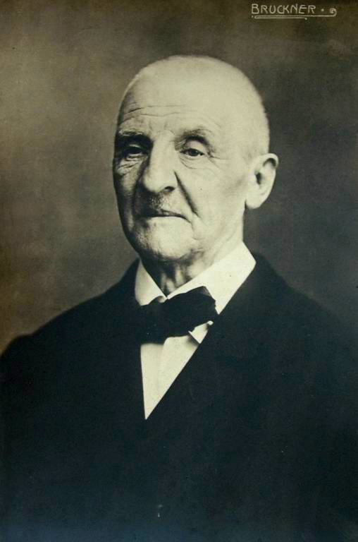 Austrian composer Anton Bruckner